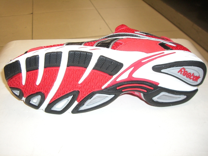 Reebok TAIKAN 2009